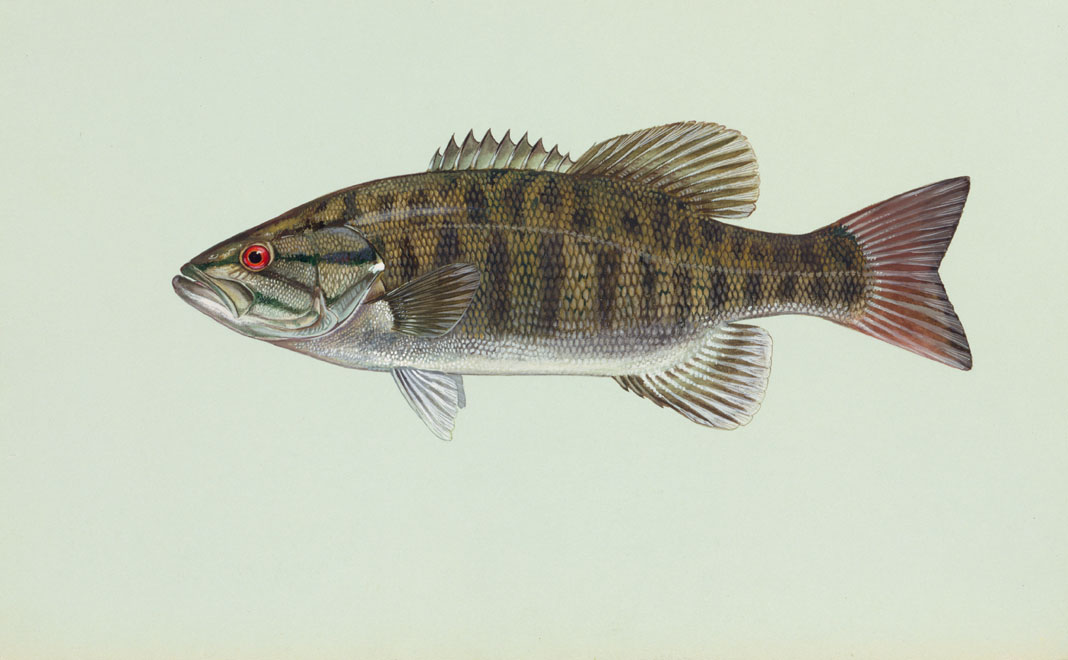 Smallmouth bass (Micropterus dolomieu)